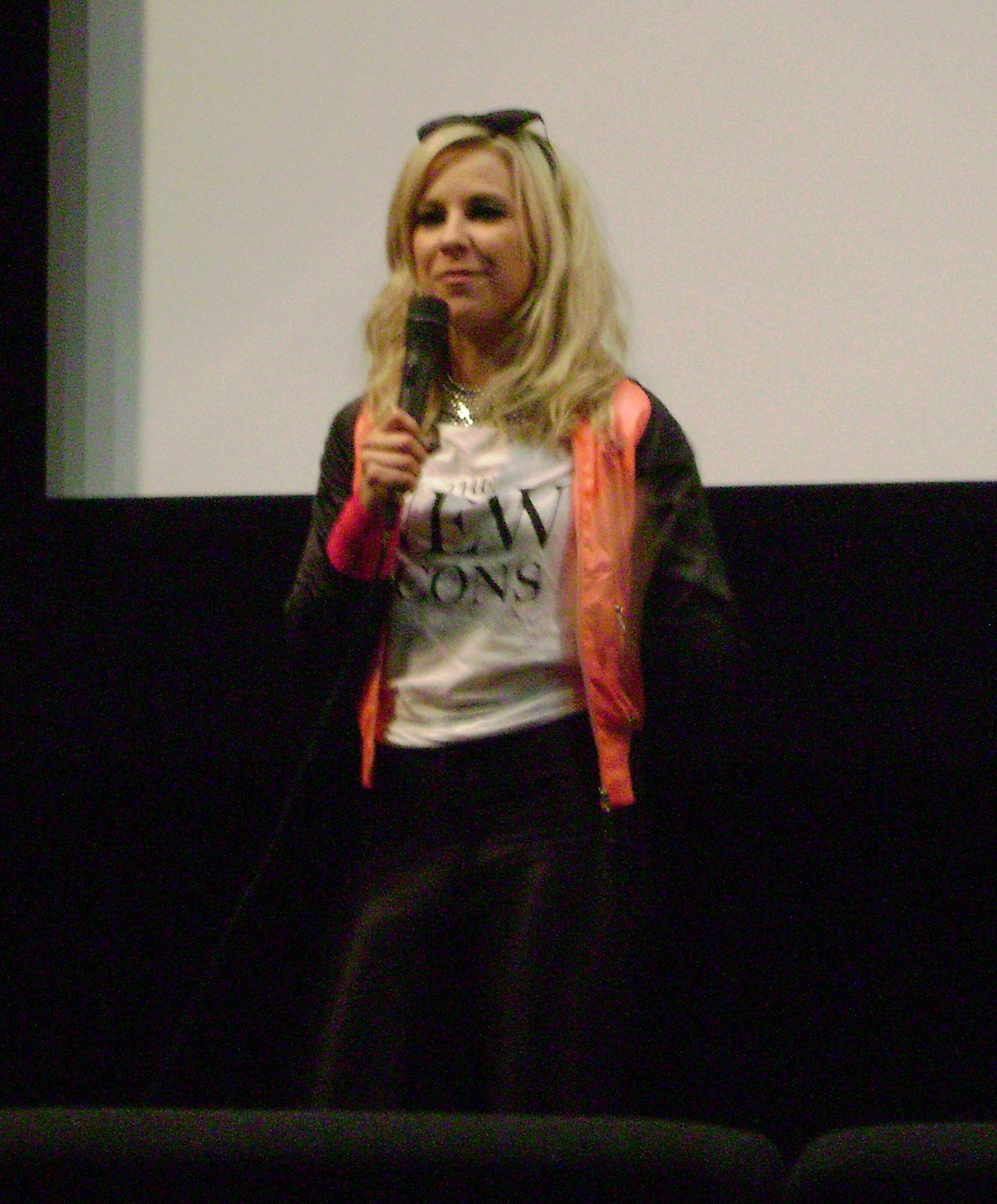 Finnish singer Krista Siegfrids at OGAE Finland's 2013 previews in Helsinki.